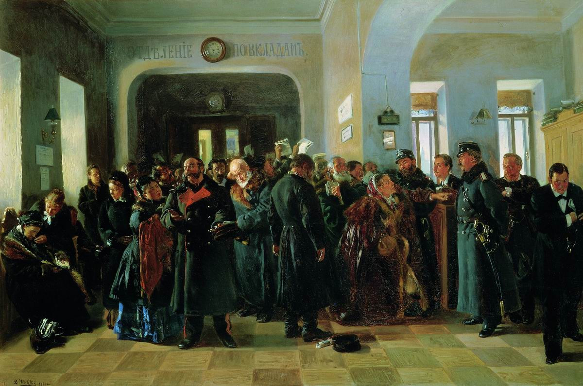 Bankrupt Bank (Крах банка) by Vladimir Makovsky - scene of a bank run.